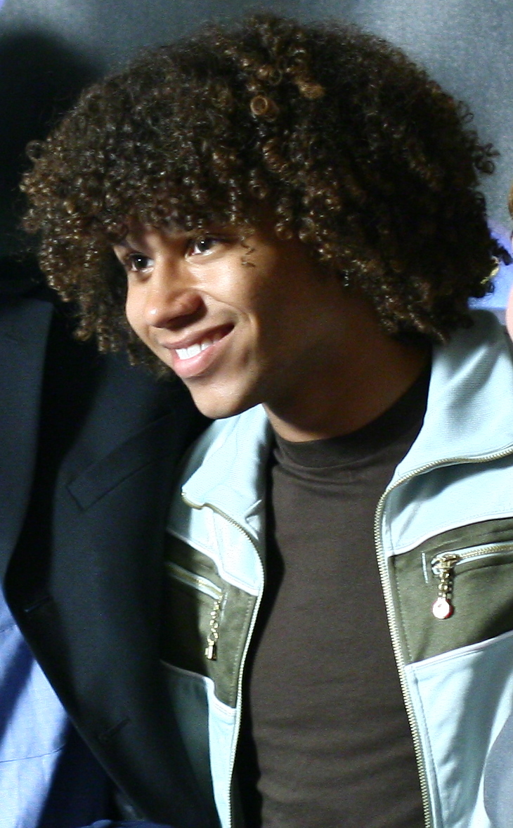 Corbin Bleu In Disney DXD NYC